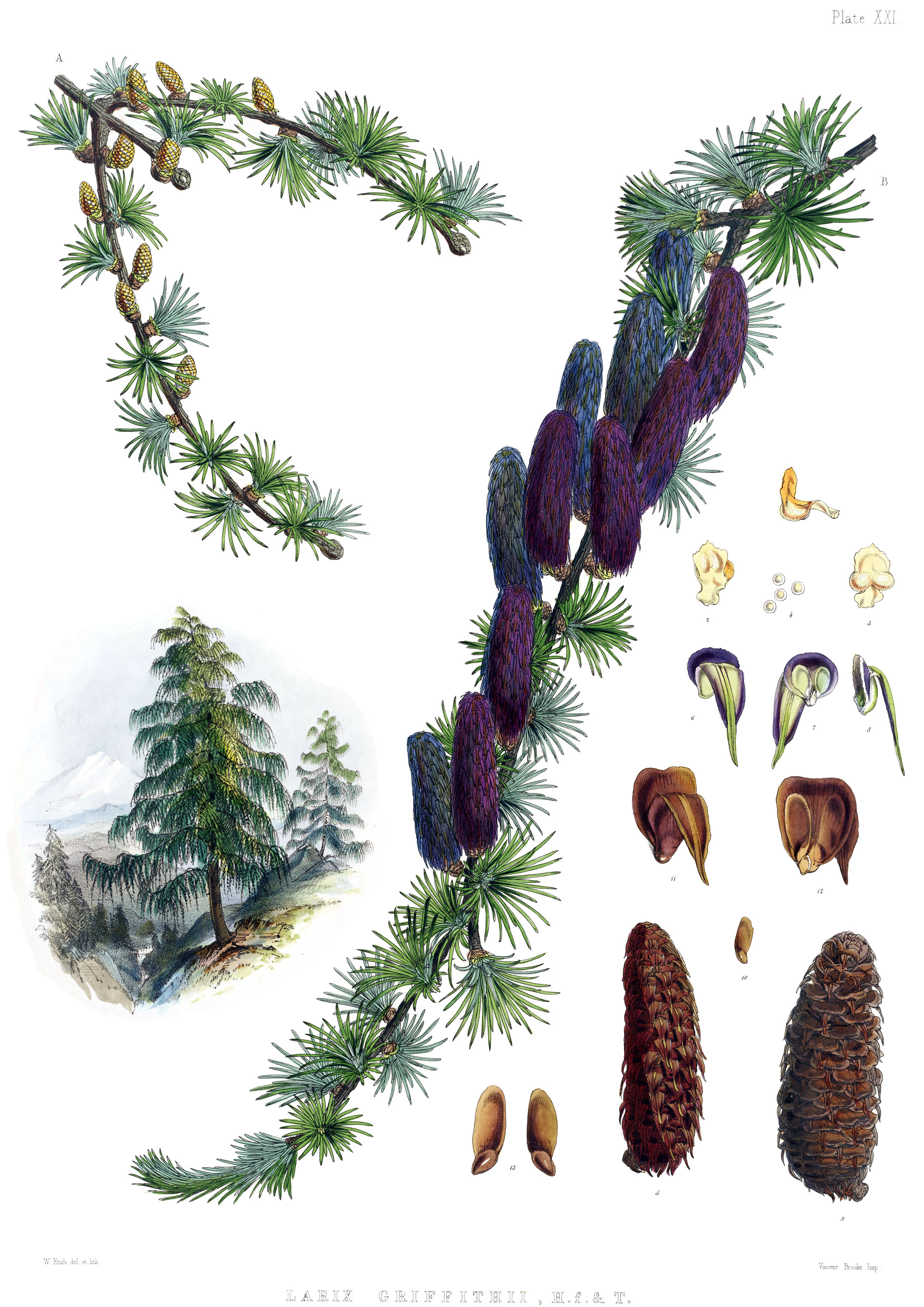 Larix griffithii. Original caption: "Plate XXI. A. Male branch. B. Female branch. Fig. 1, 2, 3. Anthers. 4. Pollen. 5. Young cone. 6, 7, 8. Scales and bracts. 9. Ripe cone. 10, 11. Its scales and bracts. 12. Ripe seeds. 13. The same :—all (but 5, 9, and 12) more or less magnified.